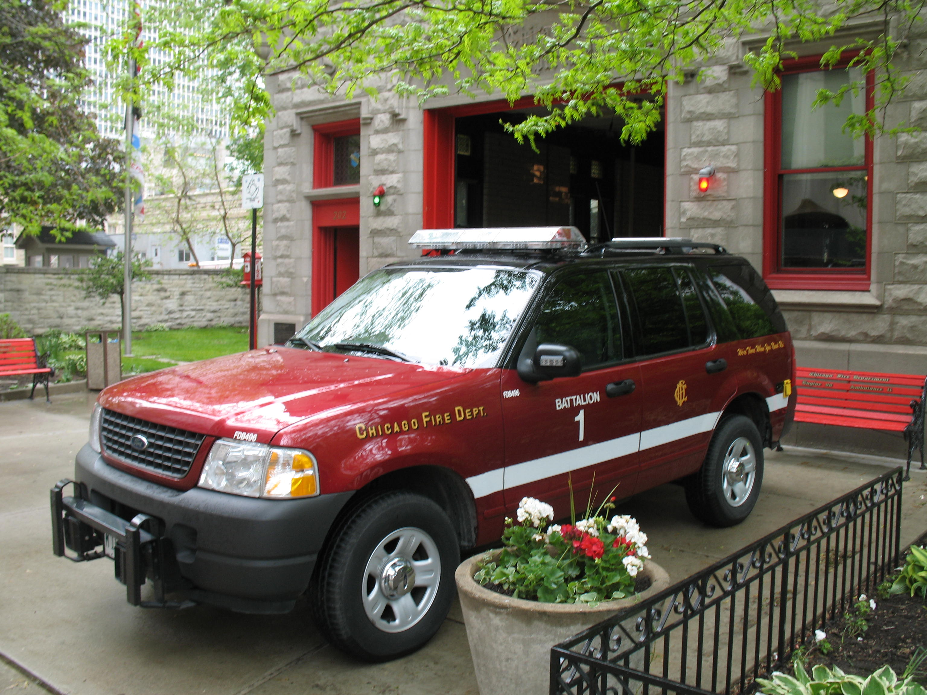 Chicago Fire Department SUV.